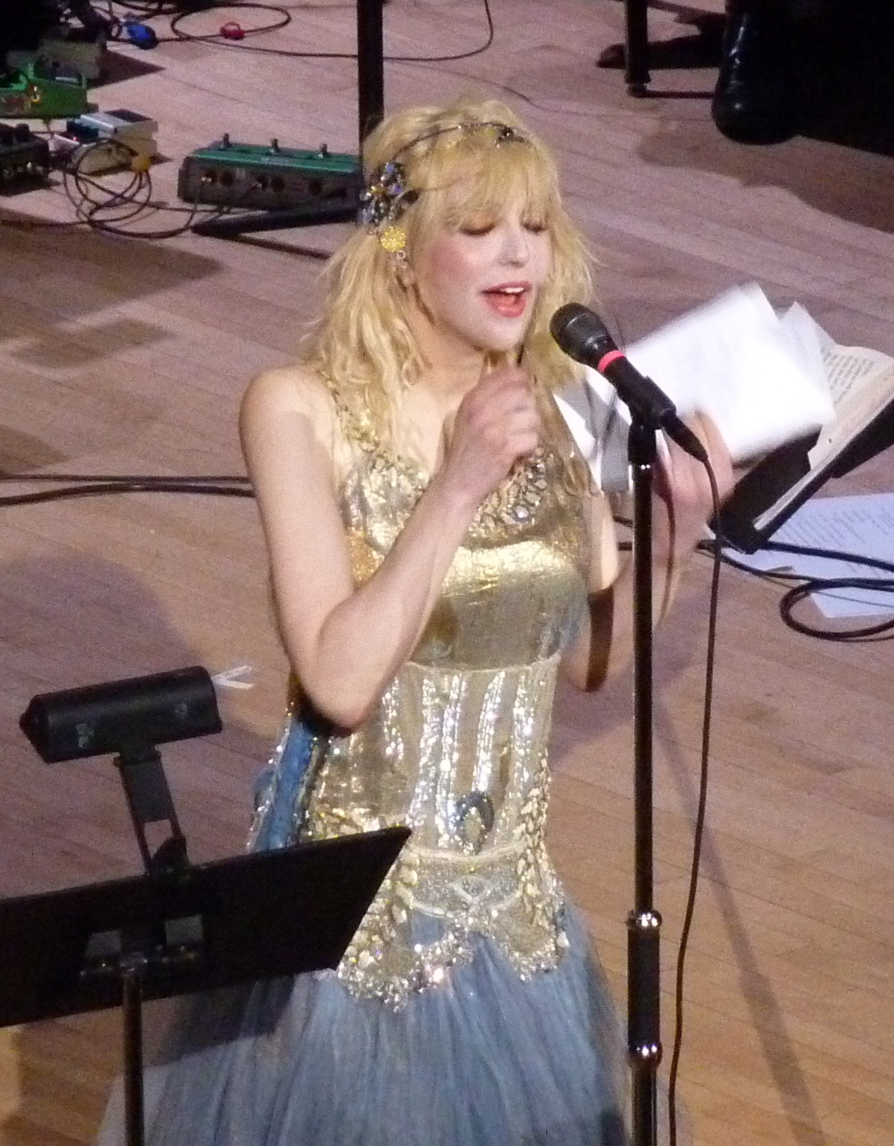 Courtney Love at Carnegie Hall, NY, October 4, 2009.